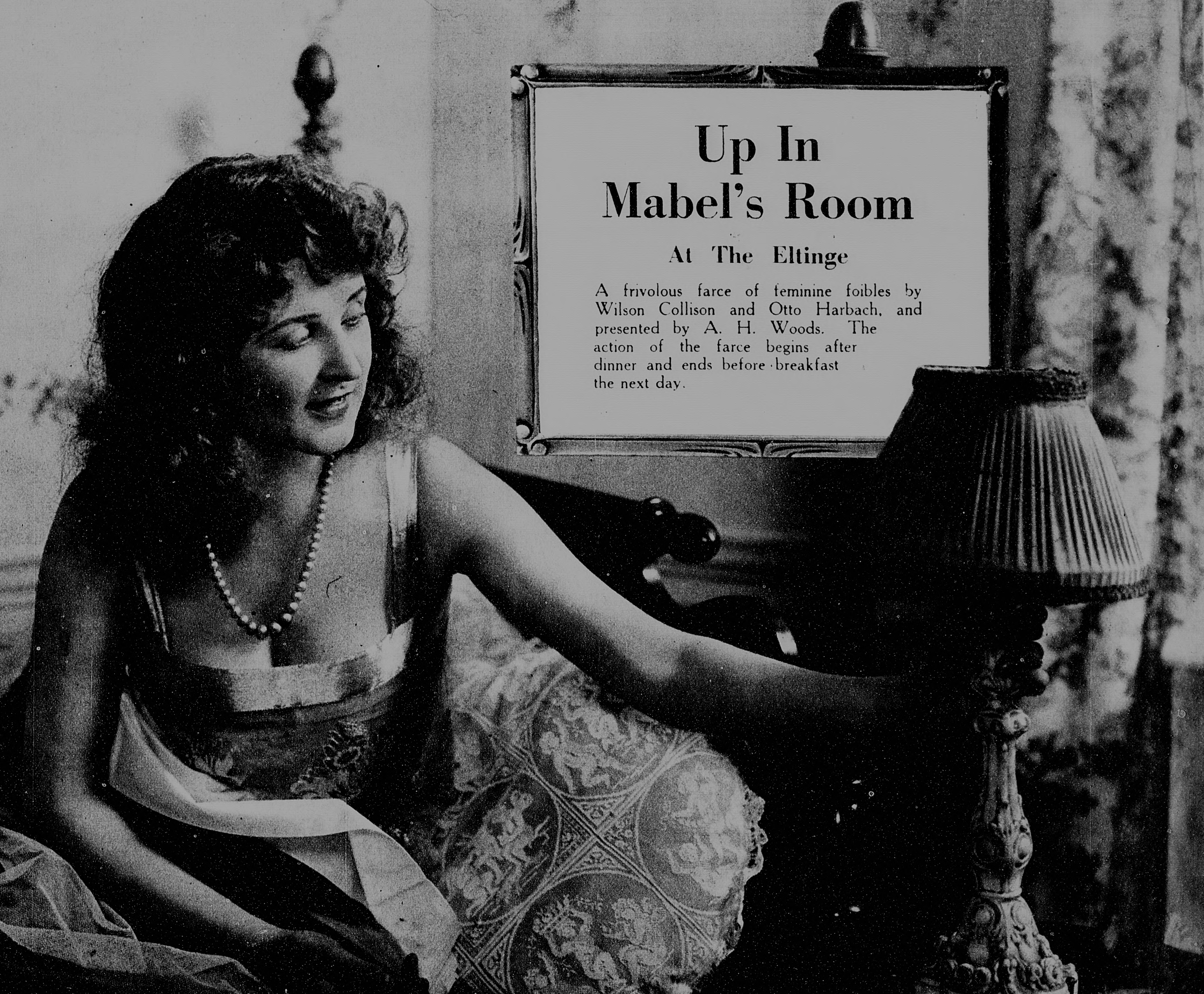 American actress Hazel Dawn in the Broadway comedy Up in Mabel's Room in 1919.